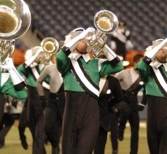 Focus on a Cavalier Baritone player(Andrew Bajorek) at Drum Corps International World Finals. Taken on August 7, 2004 in Denver. --C.lettinga 19:15, 15 August 2006 (UTC)c.lettinga